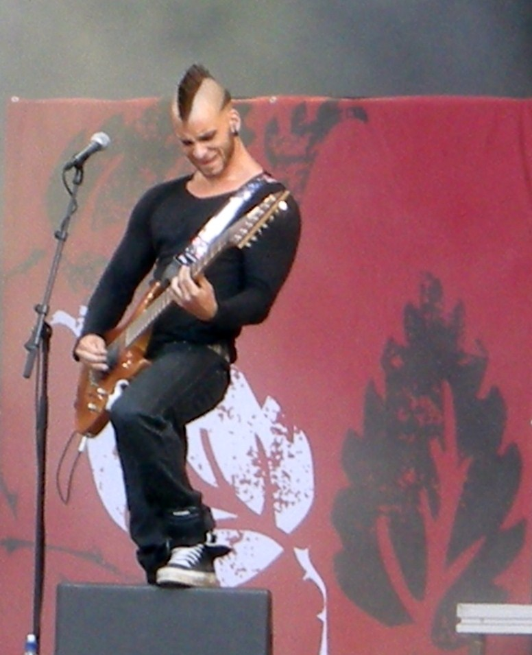 Pontus Hjelm, guitar player of Dead by April, at Sonisphere Festival, Hultsfred, Sweden 2009